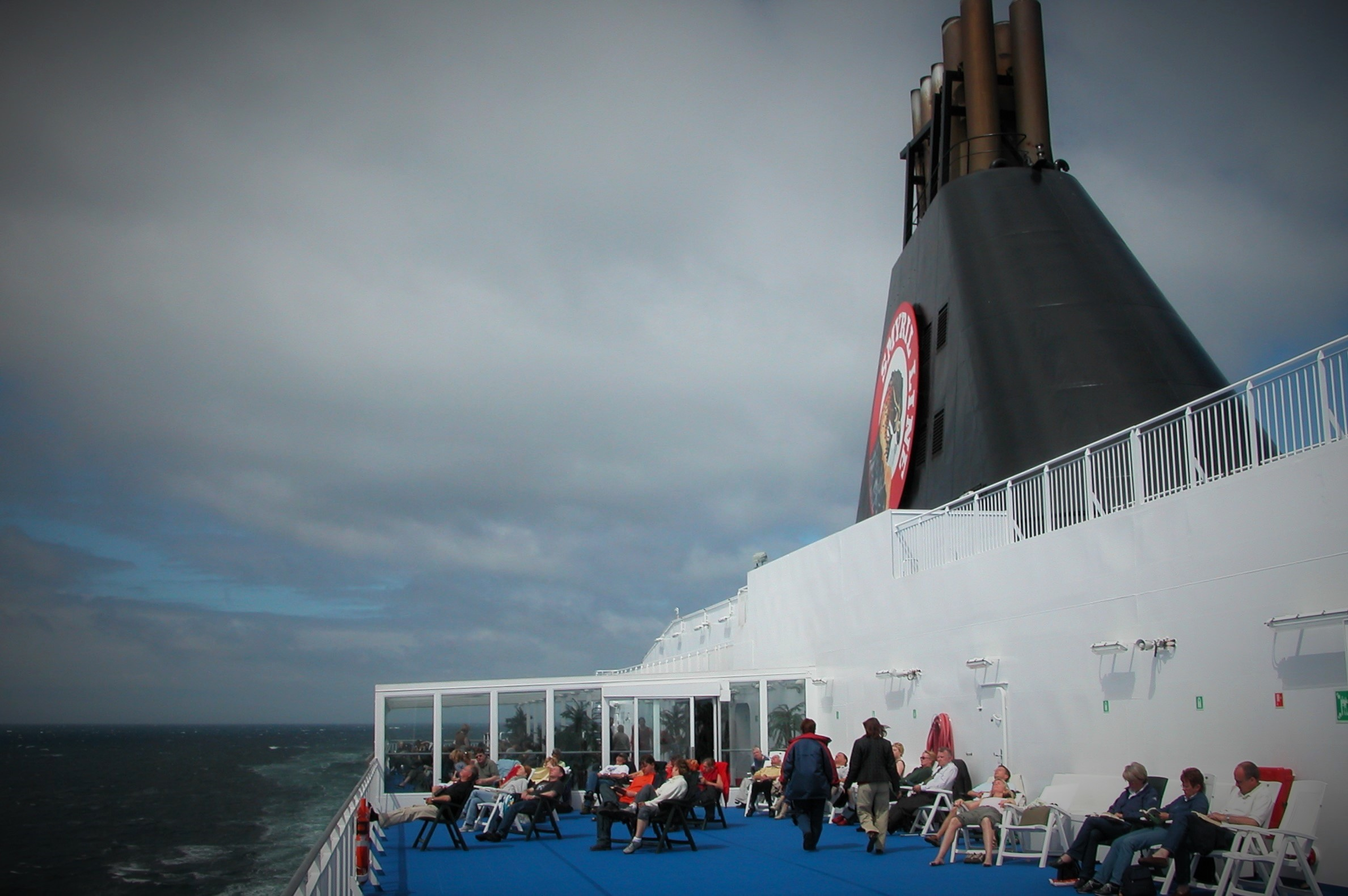 Norröna is the Faroes' largest ferry. It sails between Hirtshals, Denmark to Tórshavn, the Faroe Islands and Seyðisfjörður, Iceland.